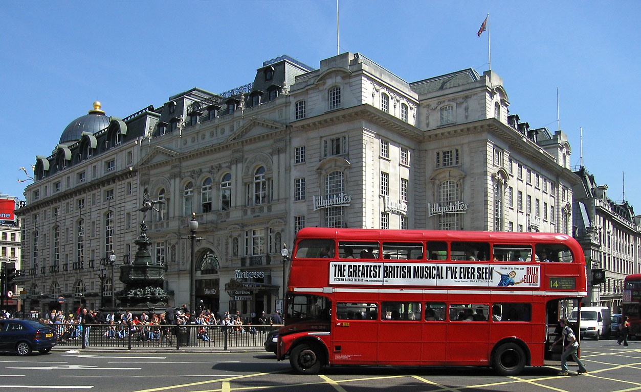 A red Routemaster double decker bus operating London Buses route 14, passing through the popular tourist area of Piccadilly Circus in London. Someone on rollerblades is either just getting on or just getting off the bus, from the open rear platform. The bus has arrived along Piccadilly Place and is crossing the Circus west to east, past the front of the Lillywhites sports store and the statue of Eros (out of shot to the left), to exit along Shaftesbury Avenue. Having come from the Green Man pub in Putney Heath in south west London, the bus is now not far away from its final central London destination of Tottenham Court Road. By 2005, Routemasters were in the final stages of withdrawal in London being replaced by more modern buses, due to the lack of disabled access, as well as the dangerous use of the rear platform away from stops and as the bus is moving, as captured in this image. As one of the last 5 routes using them, the Routemasters on route 14 (and route 22) were withdrawn on 22 July 2005. The bus itself is an unidentified RML class Routemaster operated by London General, allocated to Putney Garage (as indicated by the white AF letters). The RML class were a later variant of the Routemaster, a few feet longer than the original RM class, by virtue of an added half section inserted into the middle, as highlighted by the extra small windows. While Routemasters continued in London on the Heritage Routes (9H & 15H), neither passes through Piccadilly Circus.